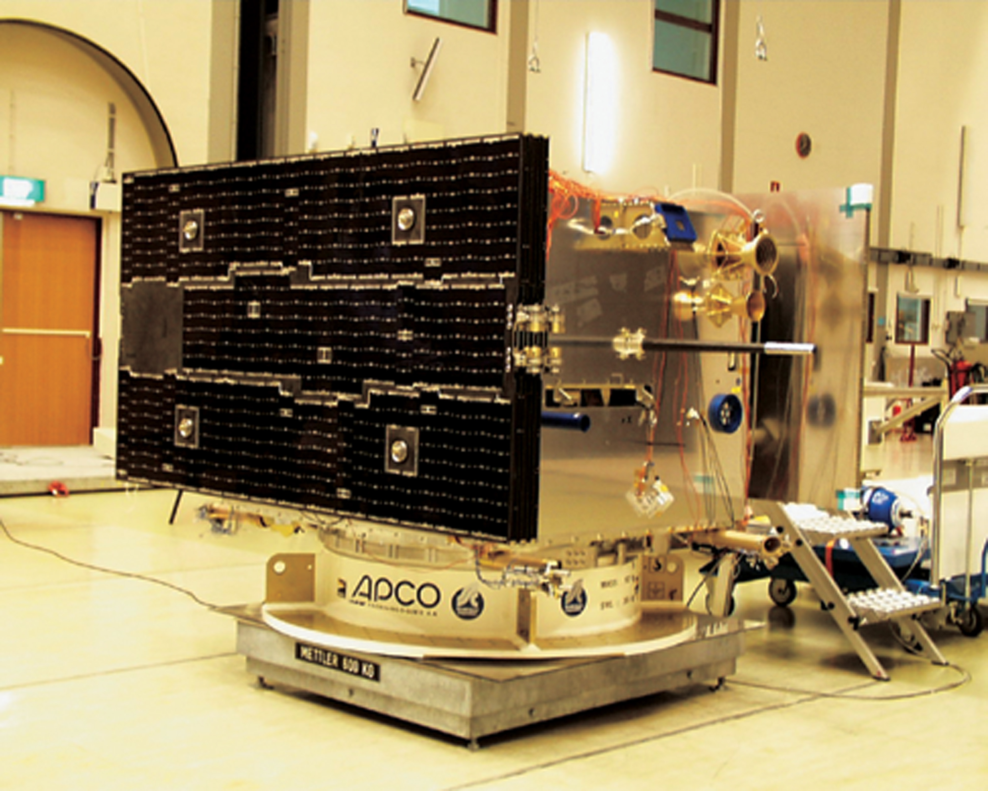 SMART-1 is packed as it will be for launch. SMART-1 is Europe's first mission to the Moon. The scientists taking part have a 21st-Century view of our companion in space, which makes our connection with it more intimate than ever. The Moon is no longer seen merely as a satellite, but as the Earth's daughter, forming in a double planet.